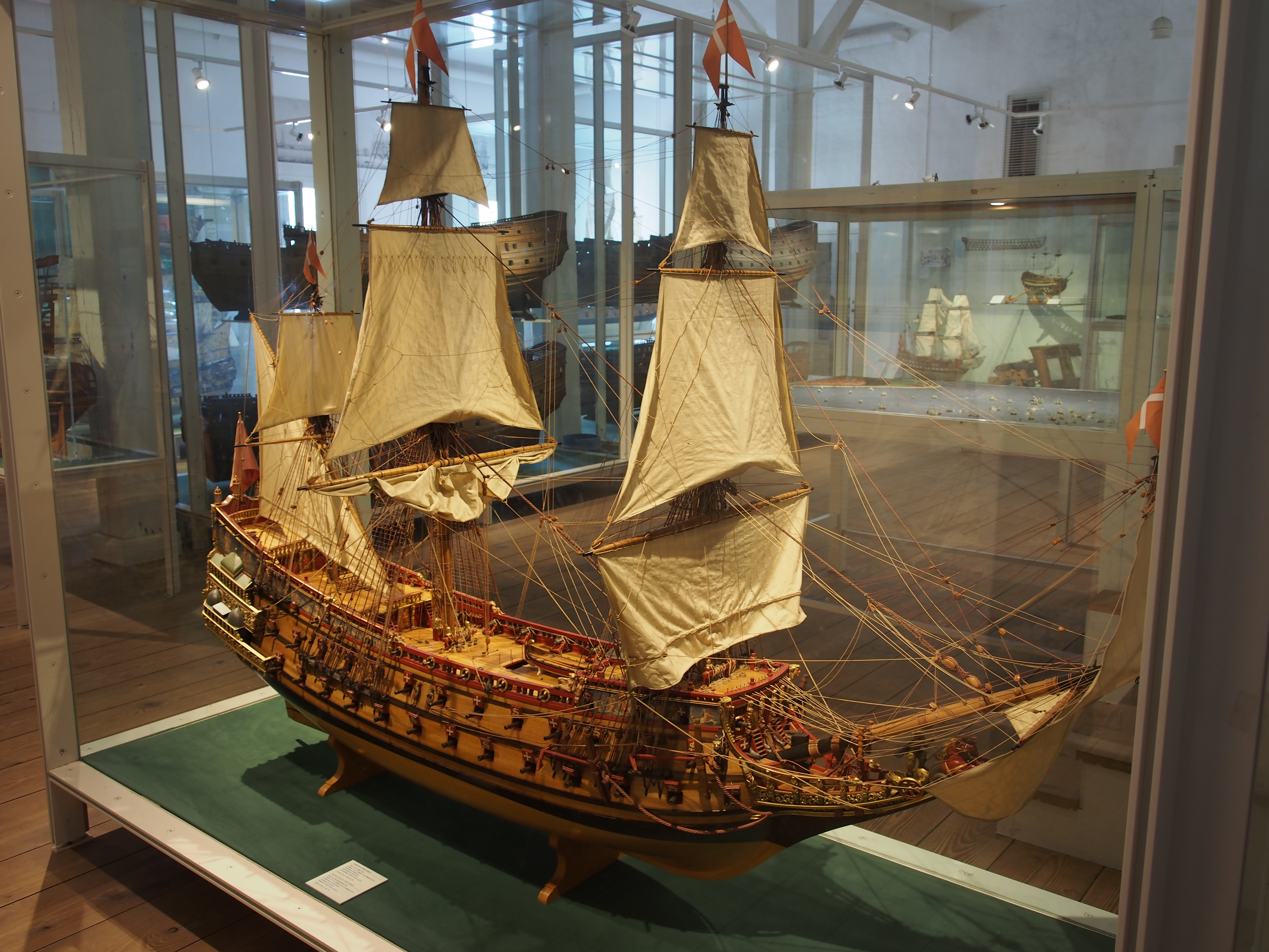 Photographed at the Royal Danish Naval Museum Copenhagen, Denmark.